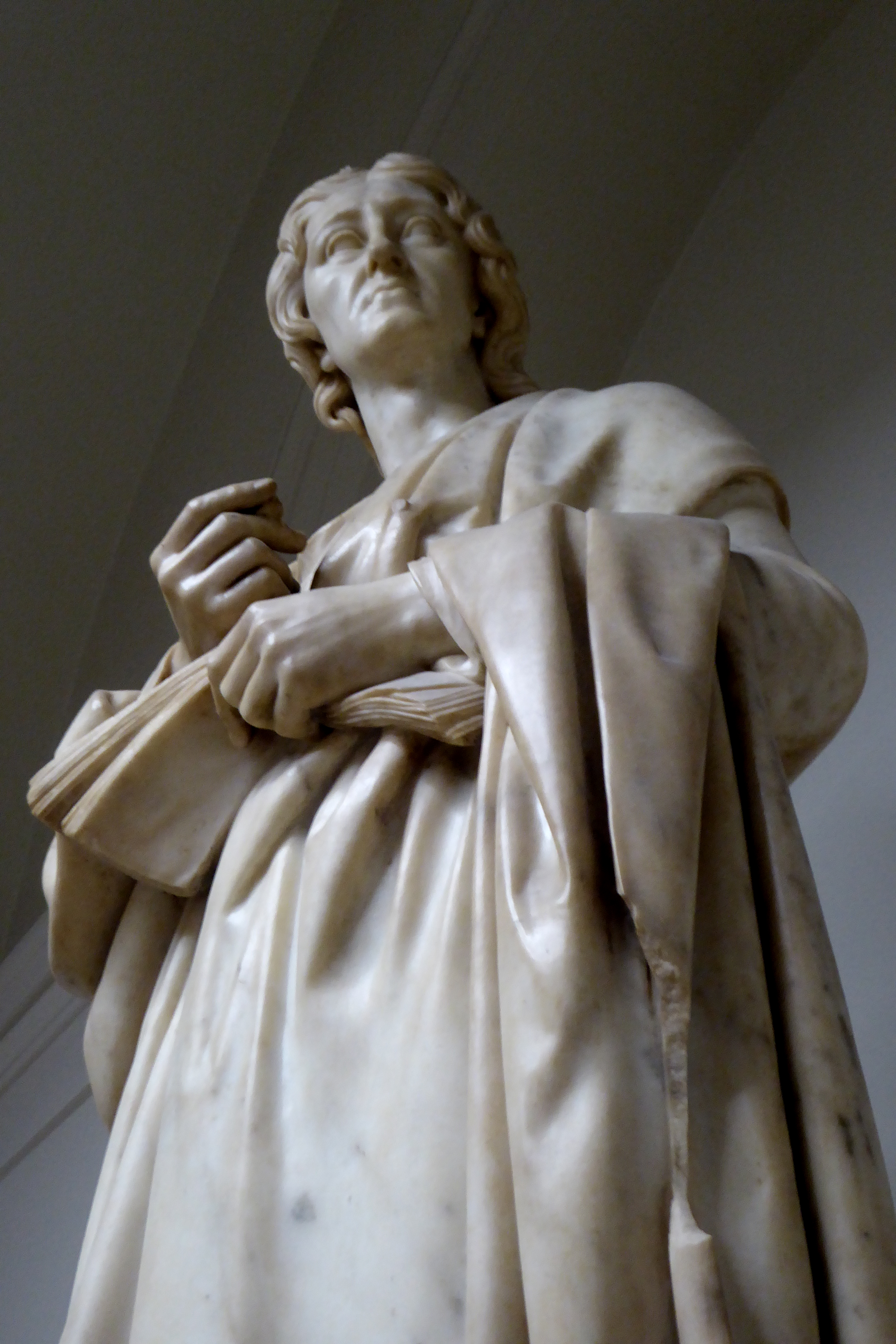 Richard Westmacott's marble sculpture of John Locke (c.1808) on display in the University College London (UCL) main building.